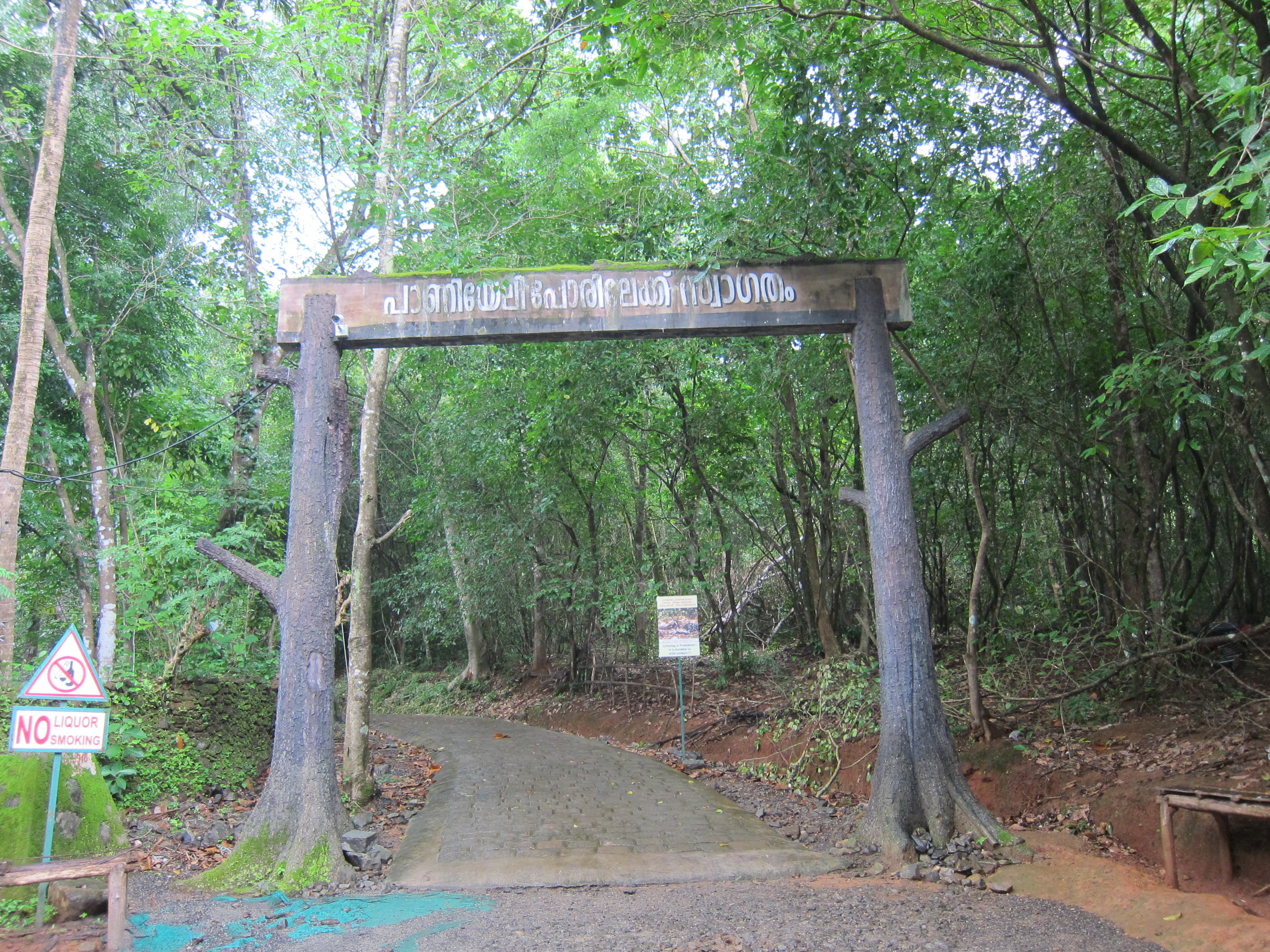 പാണിയേലി പോര് Paniyeli Poru